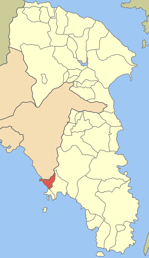 Locator map of Voula municipality (Δήμος Βούλας) in East Attica Nomarchia (Ανατολικής Αττικής) in Greece.